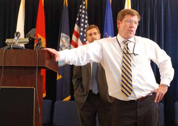 Defense Attorney Charlie Swift, a retired Navy lieutenant commander, speaks during a press conference following the Aug. 6 verdict. Fellow defense attorney Joe McMillan stands behind Swift.